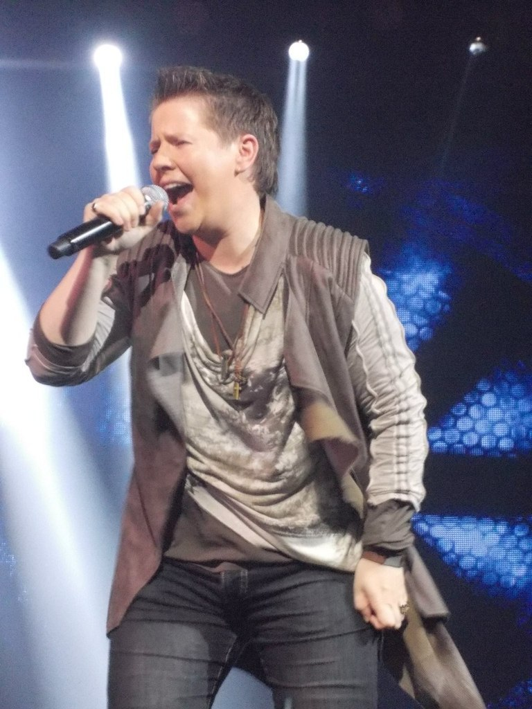 Evgeniy Litvinkovich at his solo concert on May 31st